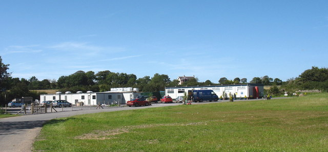 The Halen Mor Ynys Mon - Anglesey Sea Salt Factory